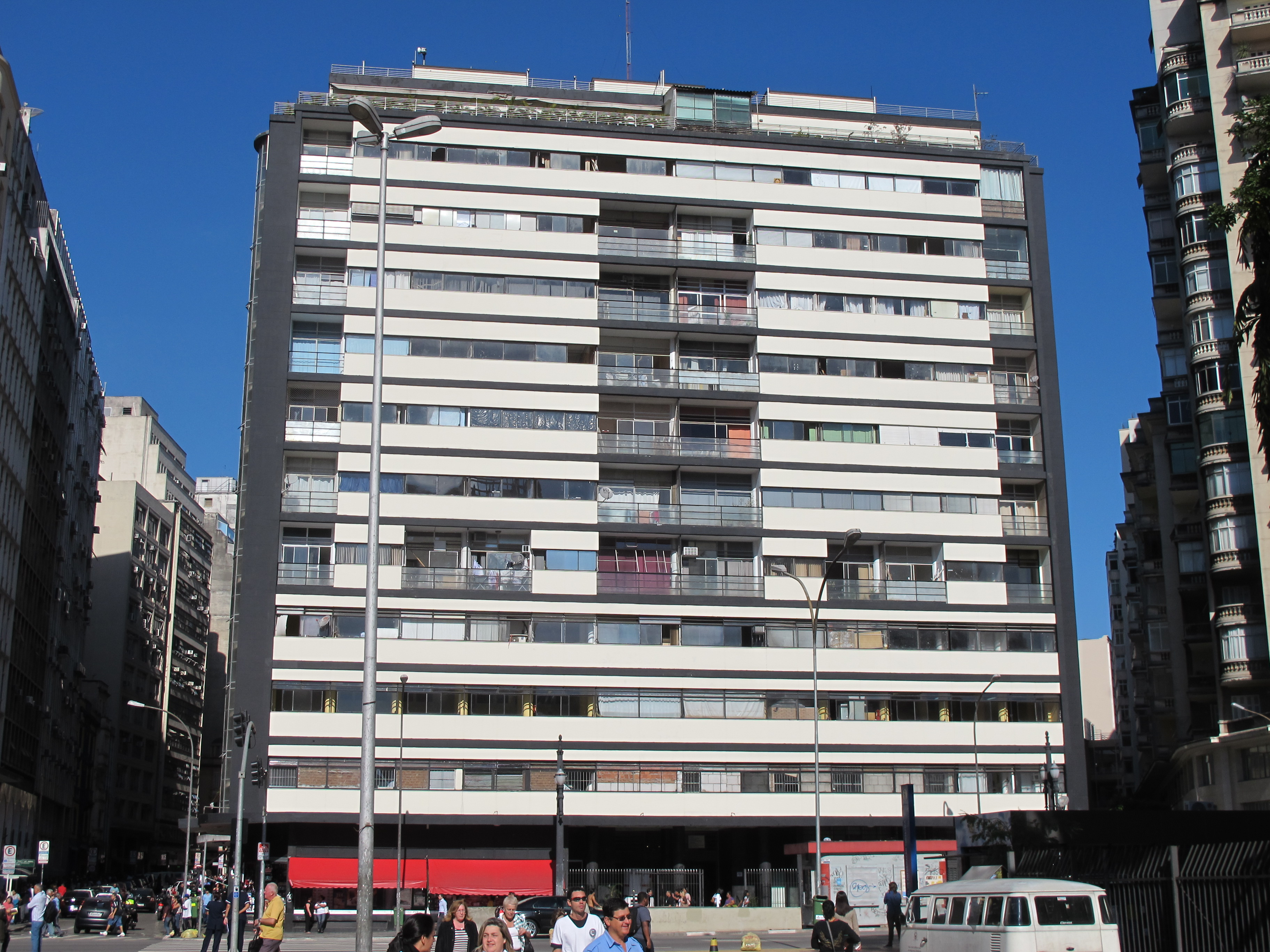 Edificio Esther, July 2012, São Paulo